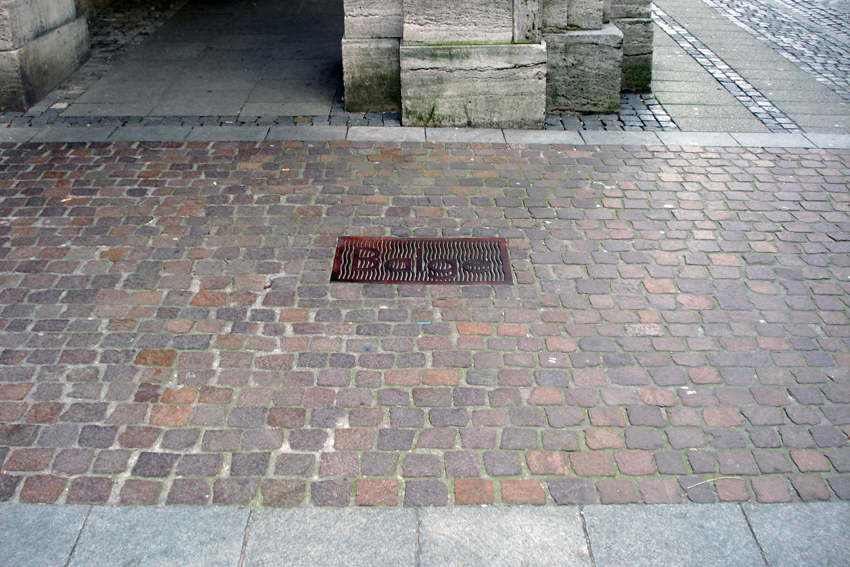 Visualization of the former course of the Balge, an old branch of the Weser river, in the pavement of the street Stintbrücke in the city of Bremen (Germany).